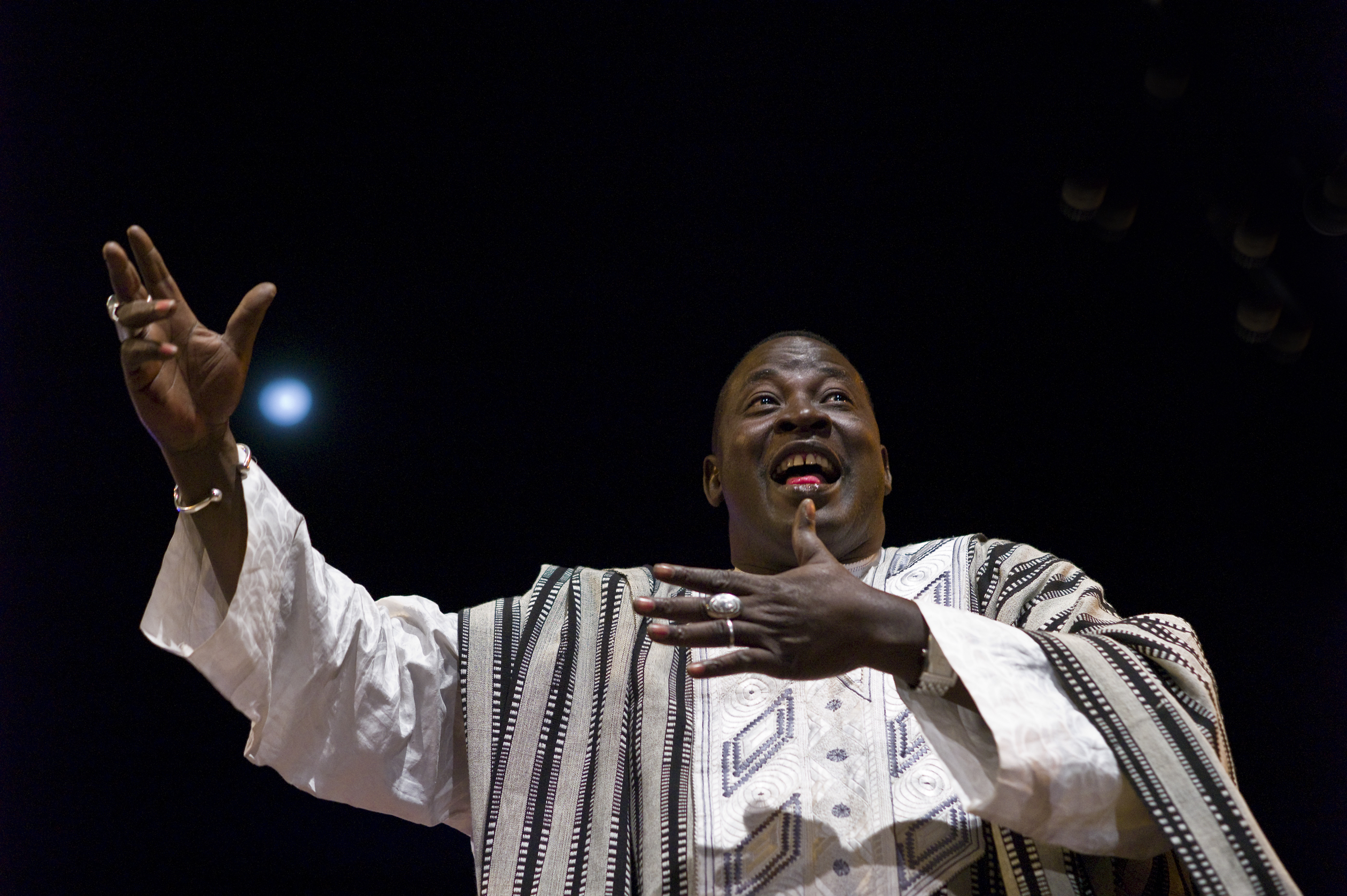 The Nigerien musician Yacouba Moumouni at the Festival au Desert near Timbuktu, Mali 2012.